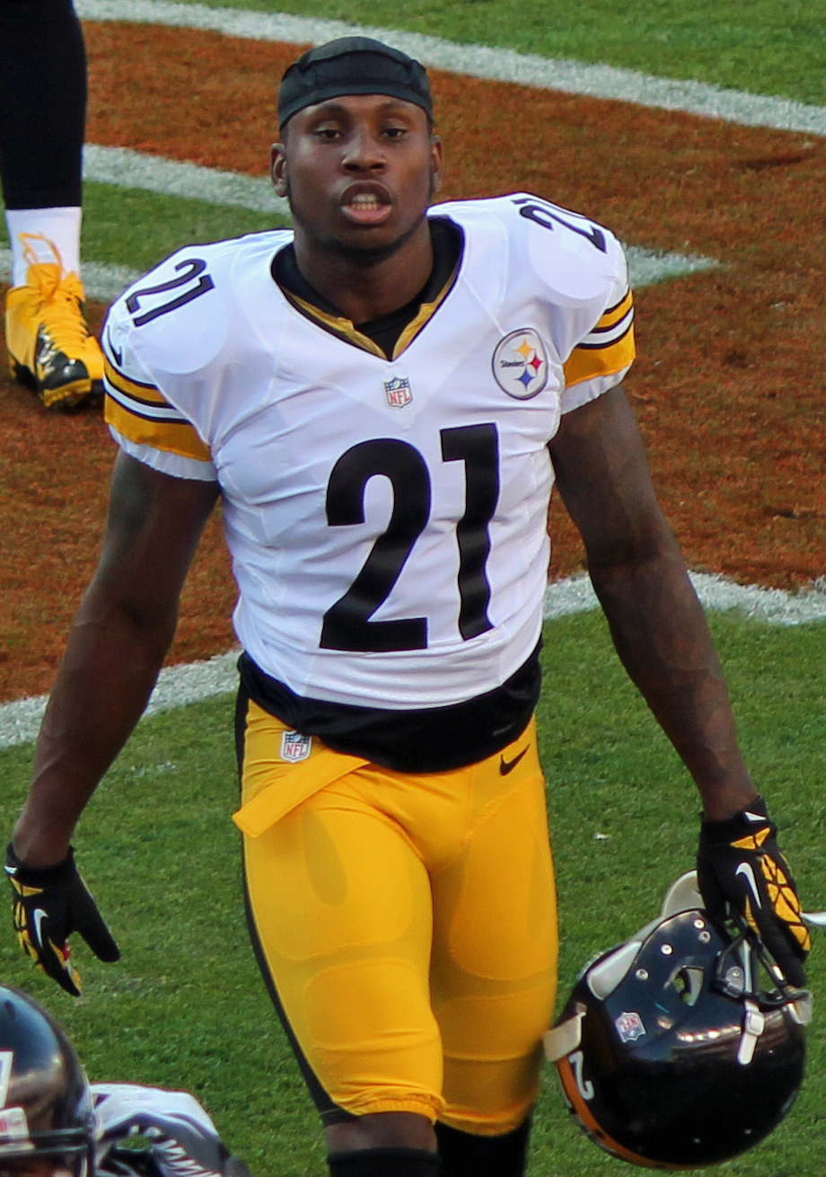 Robert Golden, a player on the National Football League.